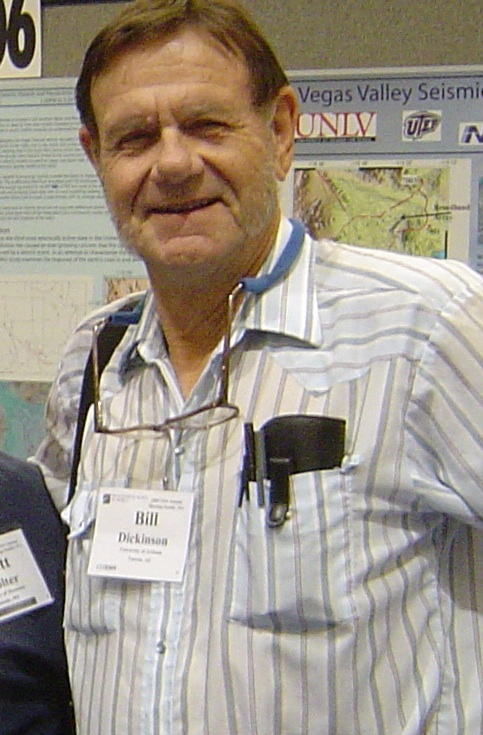 Photo of Bill Dickinson, 2004